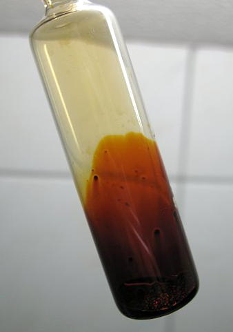 Iodine monochloride in an ampoule with vapor above the liquid